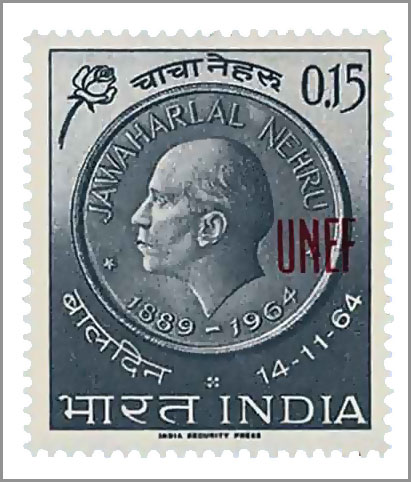 The 1965 India 15-paise Nehru Medal and Rose stamp overprinted “UNEF” for use as military stamp by Indian peacekeepers in Gaza (Scott M62) from the 2017 Scott Standard Postage Stamp Catalogue